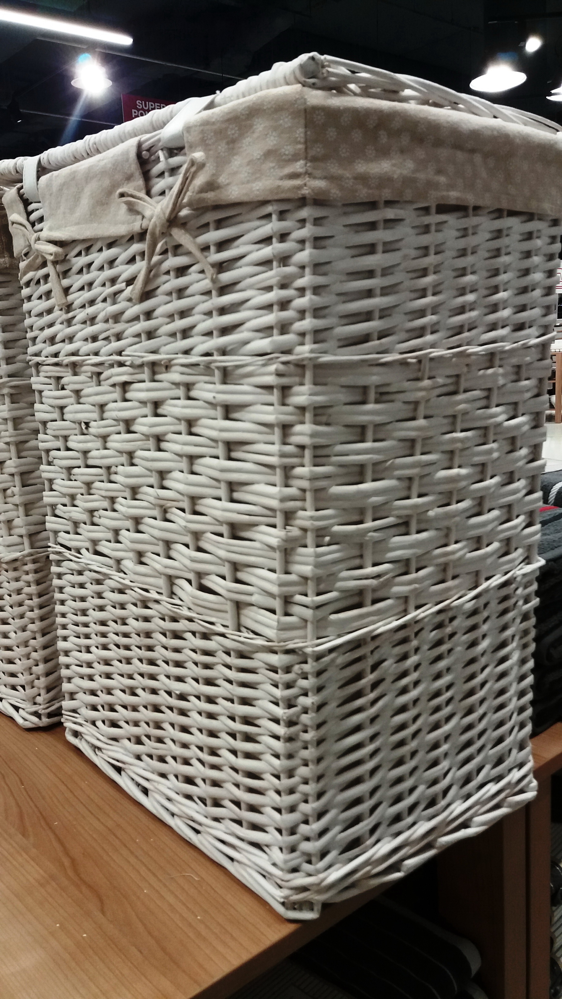 Laundry basket, wicker